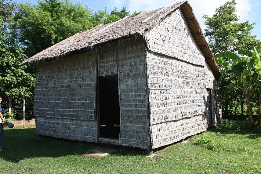 The replica of the hut that was used by Mgr Joseph Chhmar Salas during until 1977 when he died of exhaustion under the Khmer Rouge Regime.